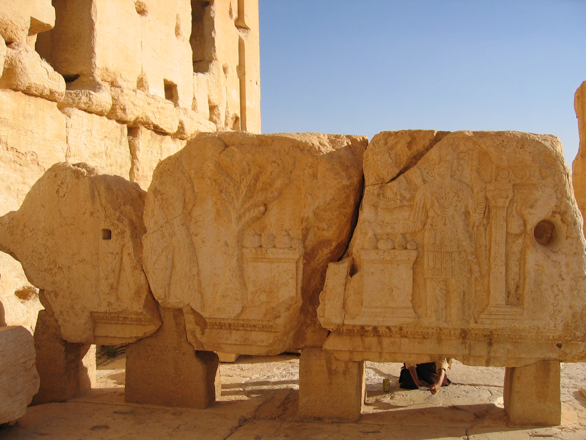 Frieze in the Baal Temple in Palmyra, Syria.